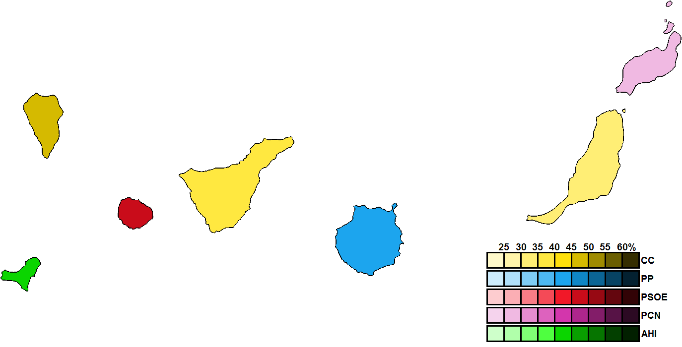 District results for the 1995 Canarian regional election.